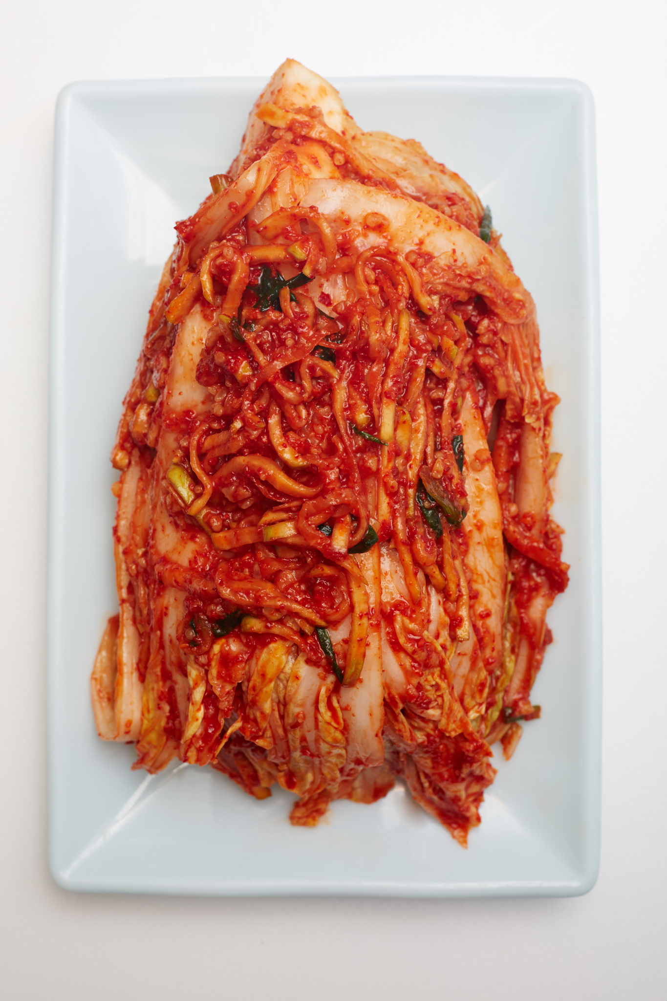 Kimchi filling